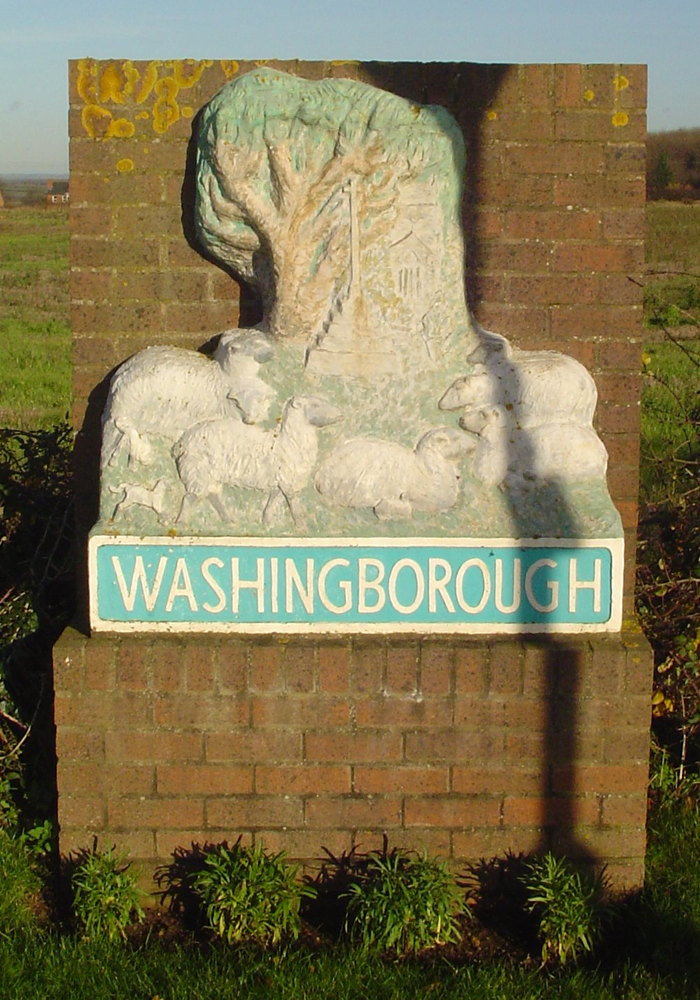 Signpost in Washingborough